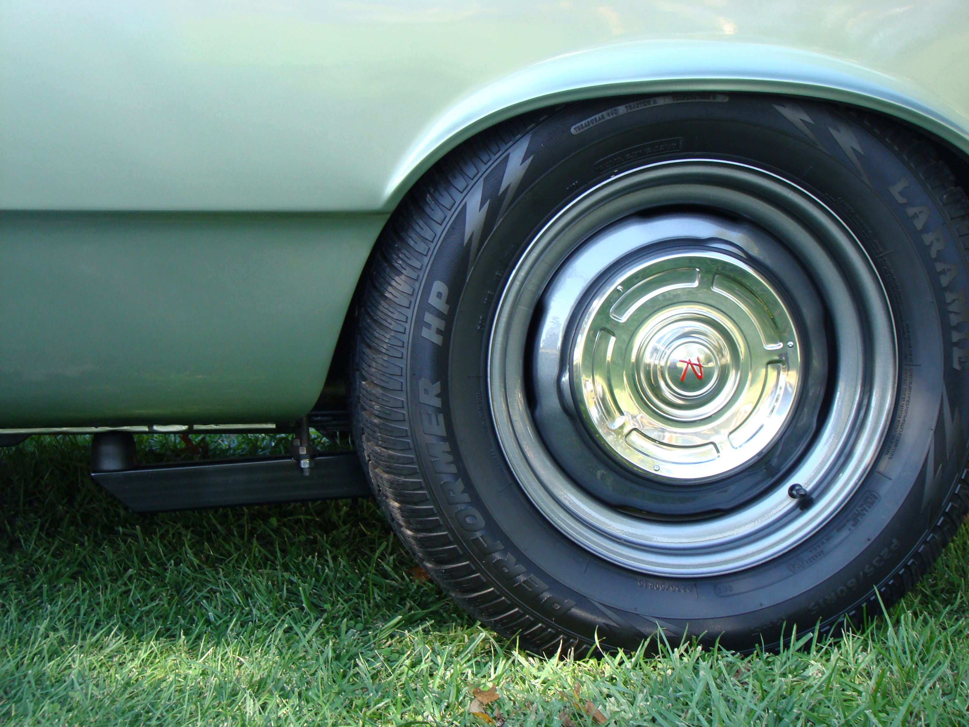 Detail of rear wheel (performance traction bar on a 1966 Rambler American 2-door hardtop that has been customized and powered by an AMC 401 cubic inch displacement (6.6 L) V8 engine.